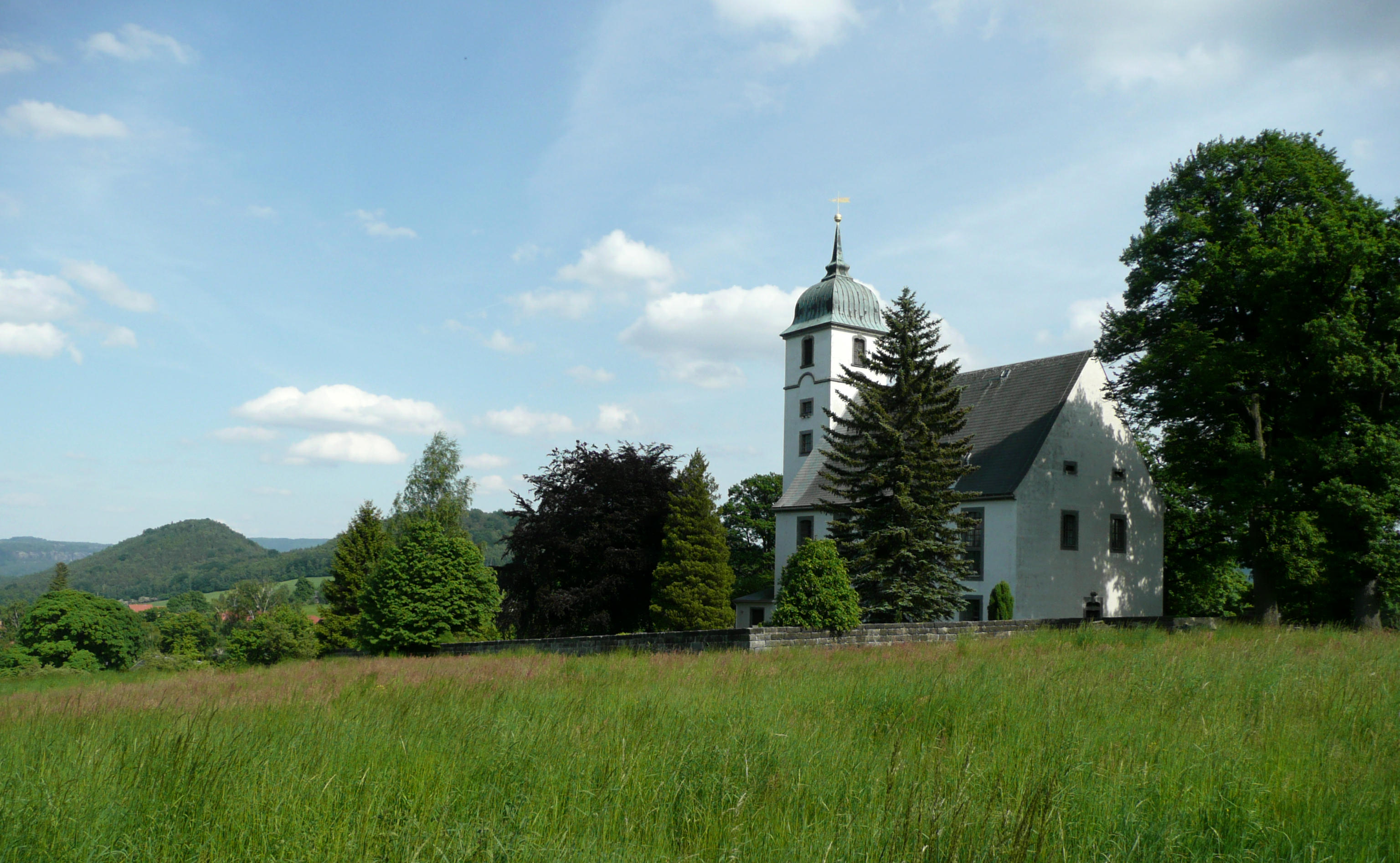 This image shows the evangelic church in Papstdorf. The church was built 1786/87.